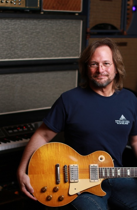 Rhett Lawrence in front of Jimi Hendrix's original Red House amplifier, holding 1959 Sunburst Les Paul